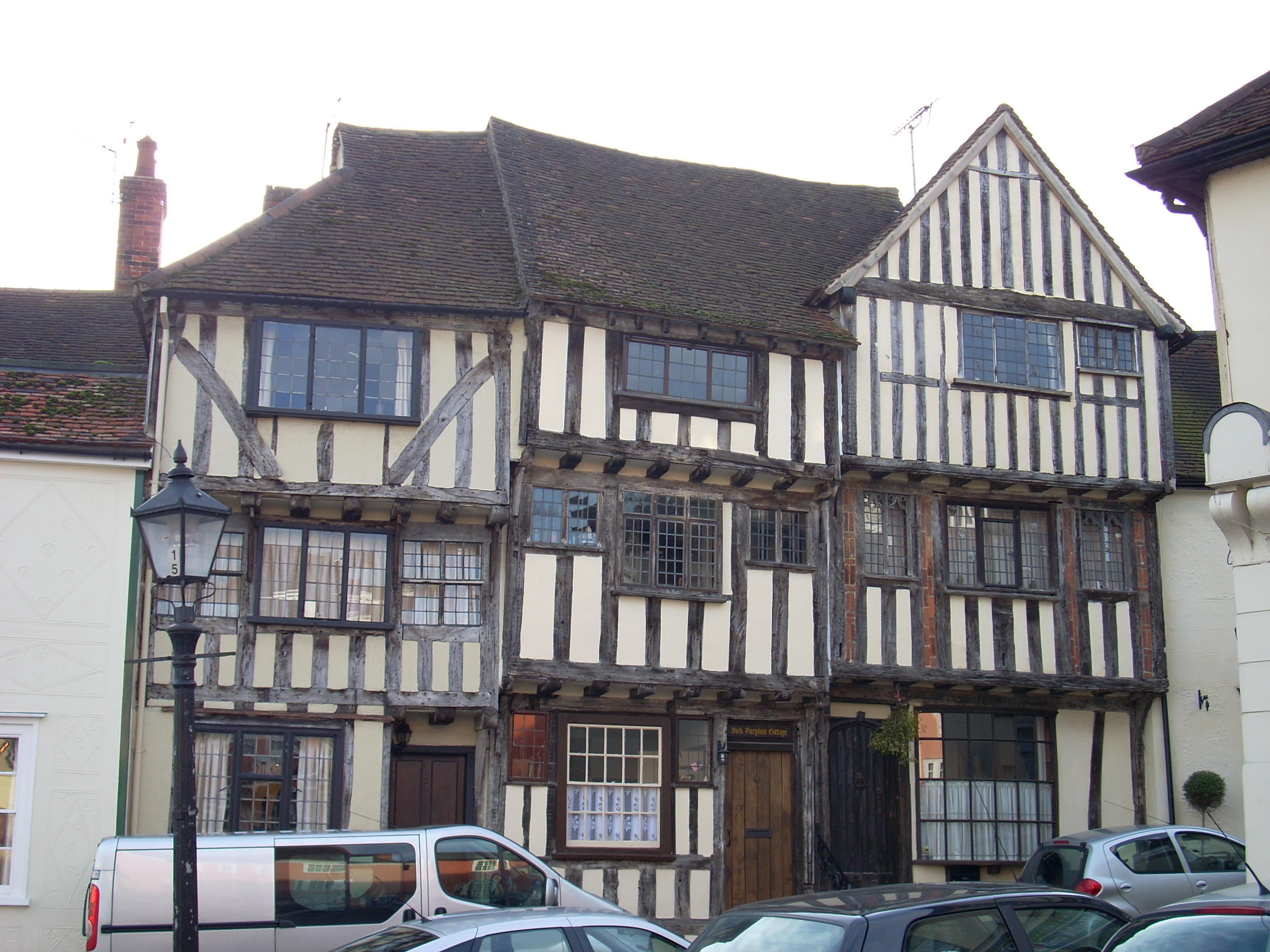 Dick Turpin's cottage, Thaxted, Essex, England